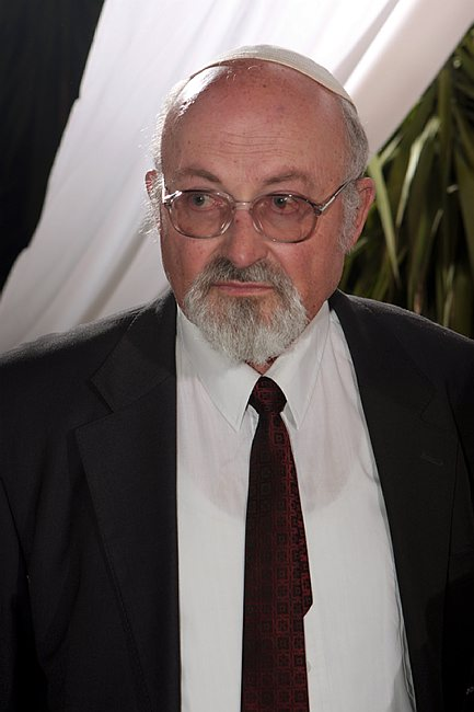 Aharon Shear-Yashuv at the wedding of his daughter Tehila